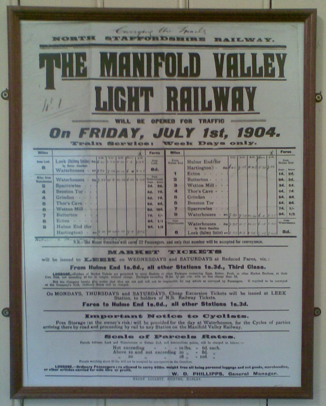 A poster of a Leek & Manifold Railway poster, displayed in Hulme End station. Photo by me, released to Public Domain.